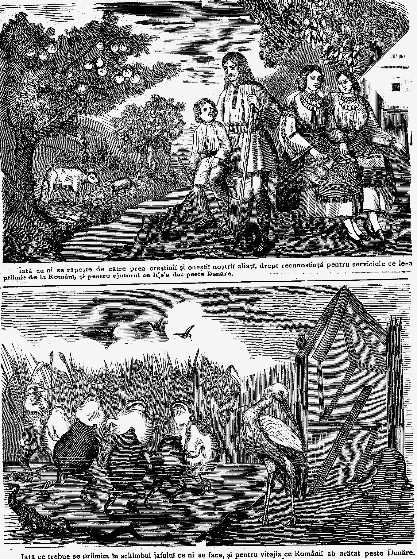 CE NI SE IA, SI CE NI SE DA ("WHAT THEY TAKE AND WHAT THEY GIVE"), cartoon illustrating Romanian reactions to the Congress of Berlin, which awarded the Romanian Bujak to Russia and gave Northern Dobruja to Romania. At the top, the Budjak as a prosperous region; at the bottom, Dobrudja as desolate and beastly marshland.